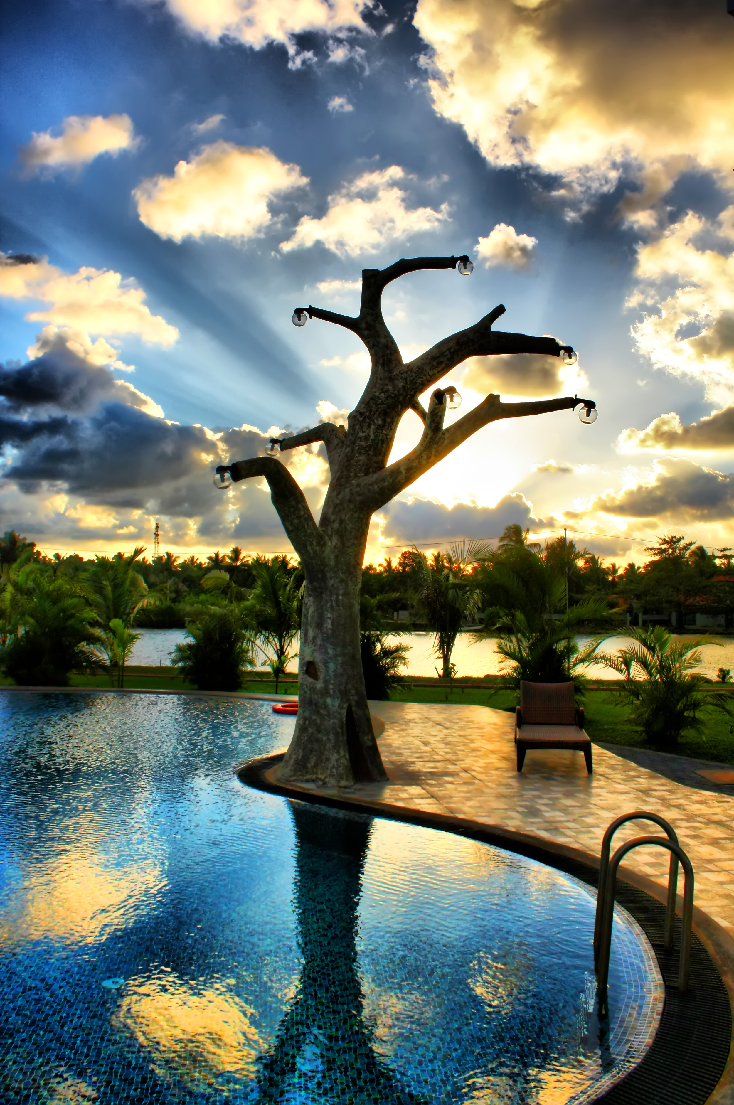 Tonemapped image, created using Dynamic Photo-HDR.